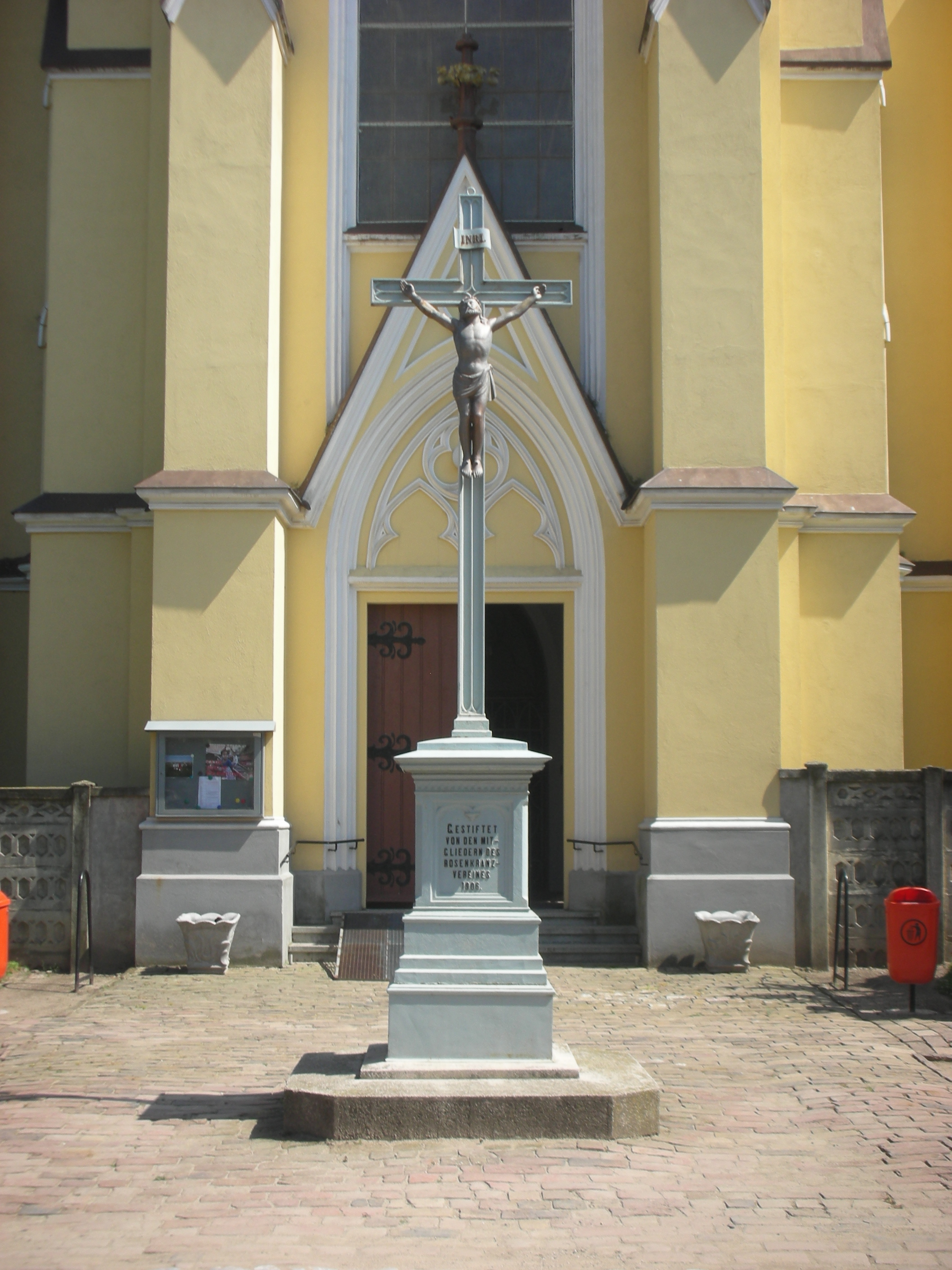 crucifix in front of the Roman Catholic church in Ciacova, Romania